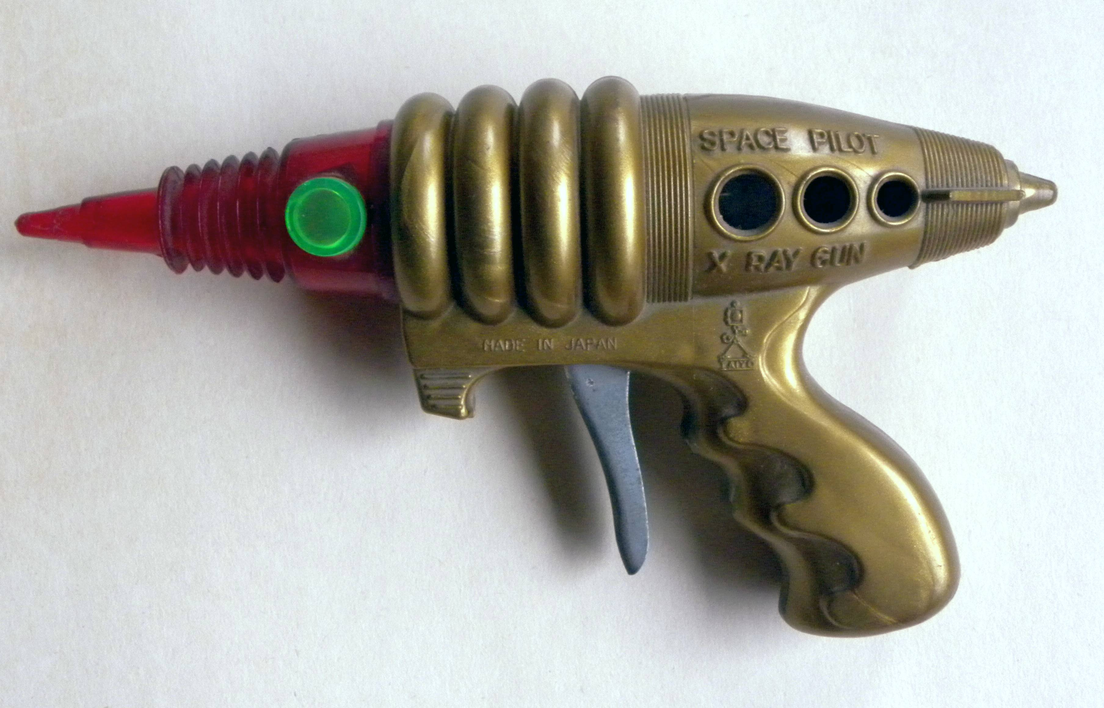 Space Pilot X Ray Gun made in Japan by Taiyo early 1970s if trigger is pulled it makes sounds and sparks fly in transparend red front. , how ever the flintstone cannot be replaced that pruduces the sparks.